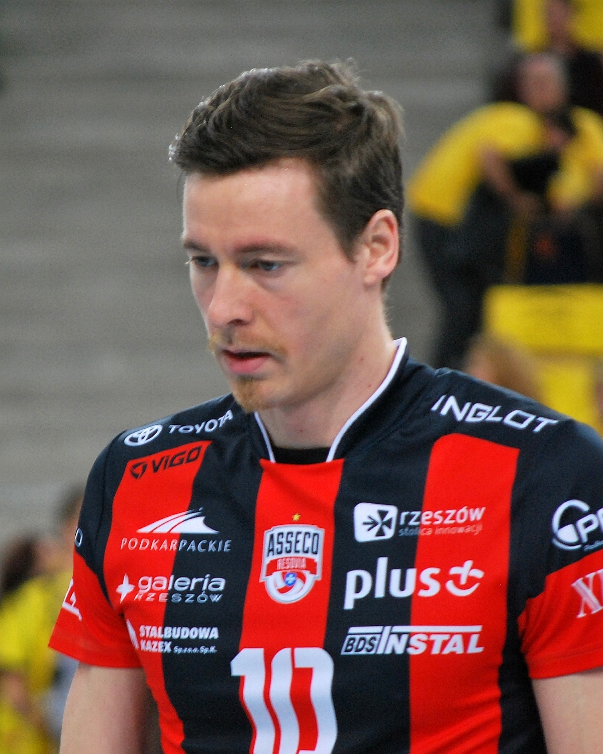 Jochen Schoeps, volleyball player from Germany